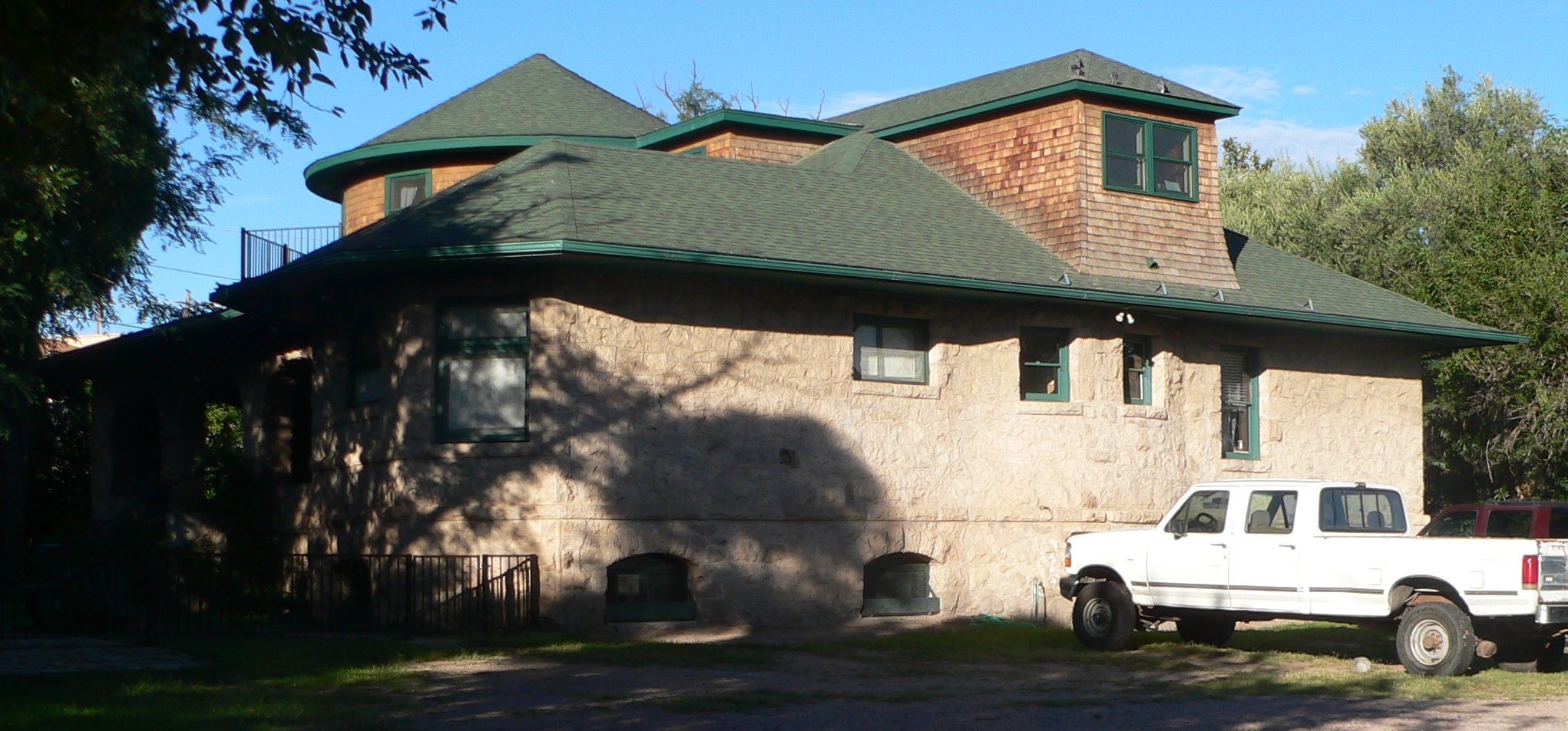 House at north corner of Arroyo Boulevard and Walnut Street in Nogales, Arizona; seen from the southeast.